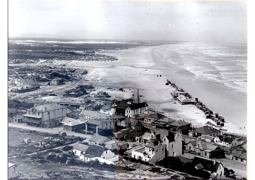 Early view of Muizenberg - dates between 1911 and 1929